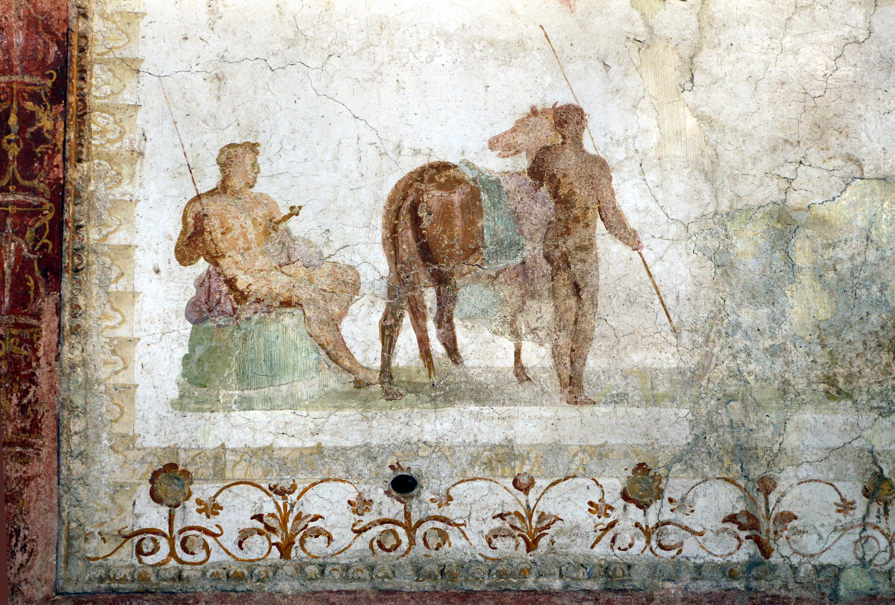 Antiquarium del Palatino (Rome)